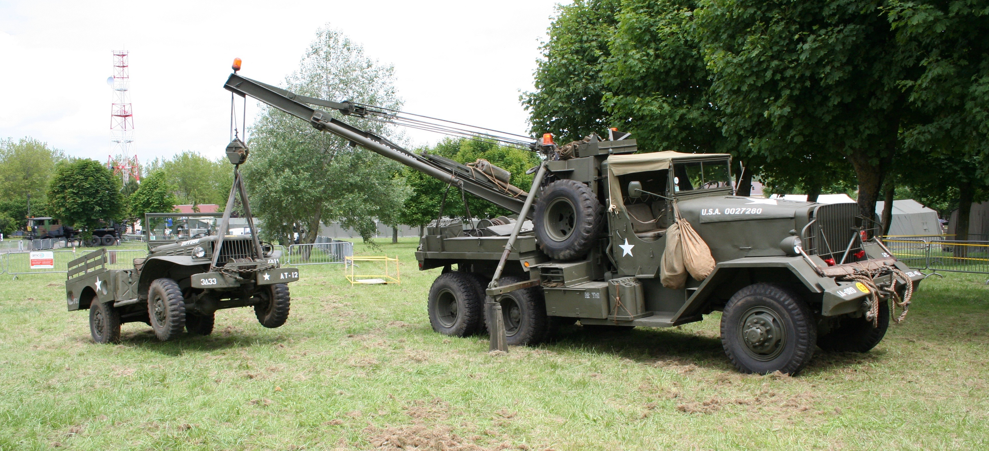 M1A1 Heavy Wrecking Truck lifting a M37 3⁄4-ton truck